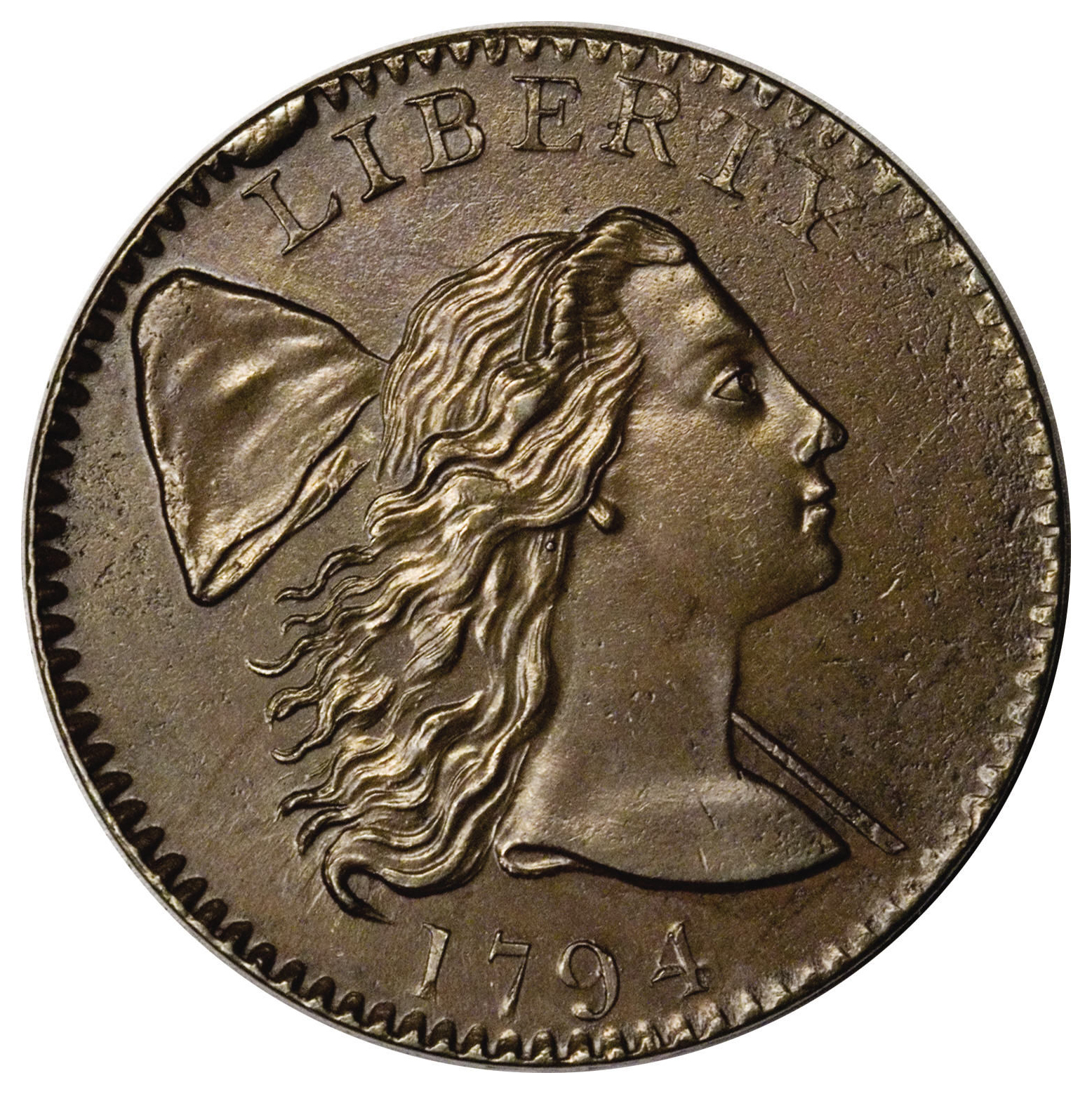 1794 1C 'Venus Marina' (S-32) (obv) (460-2034)